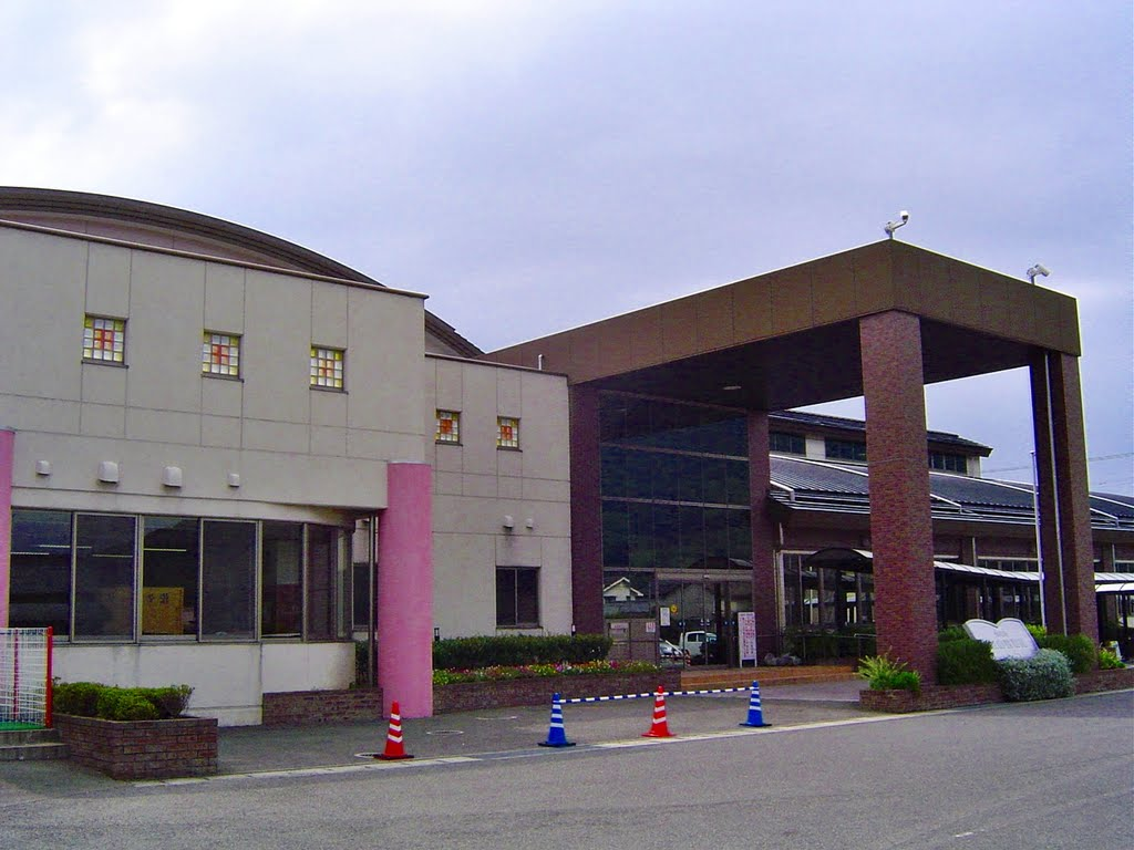 This is Hanzan General Learning Center in Marugame, Kagawa, Japan. It has Marugame City Hanzan Library and Marugame Class of Kagawa Learning Center, The Open University of Japan.